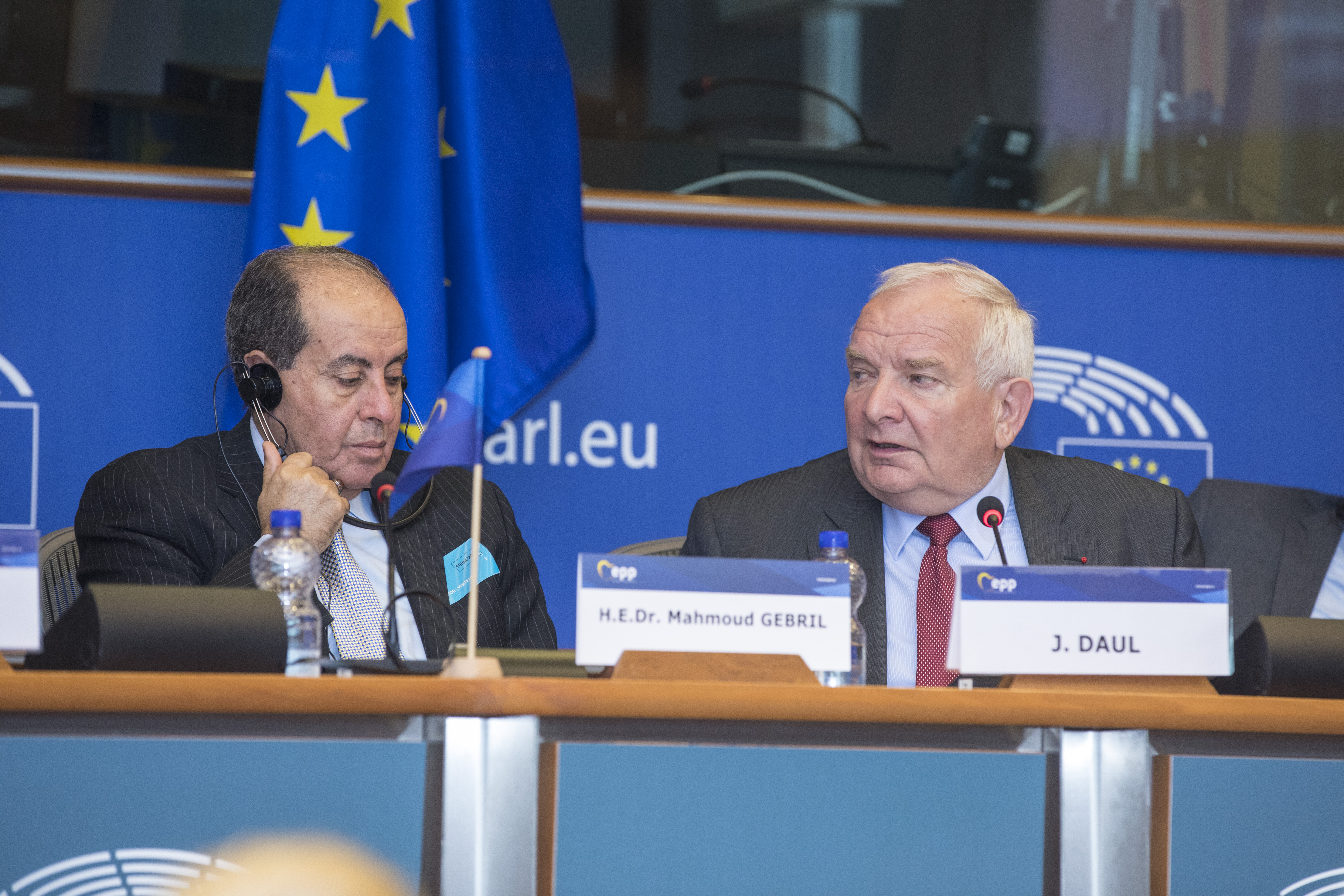 EPP Political Assembly, 10 April 2018